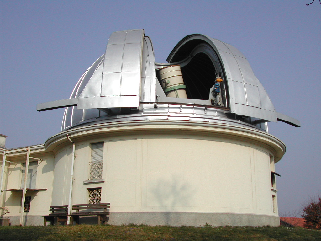 Dome of Zeiss telescope at Merate Astronomical Observatory, Merate (LC), Italy